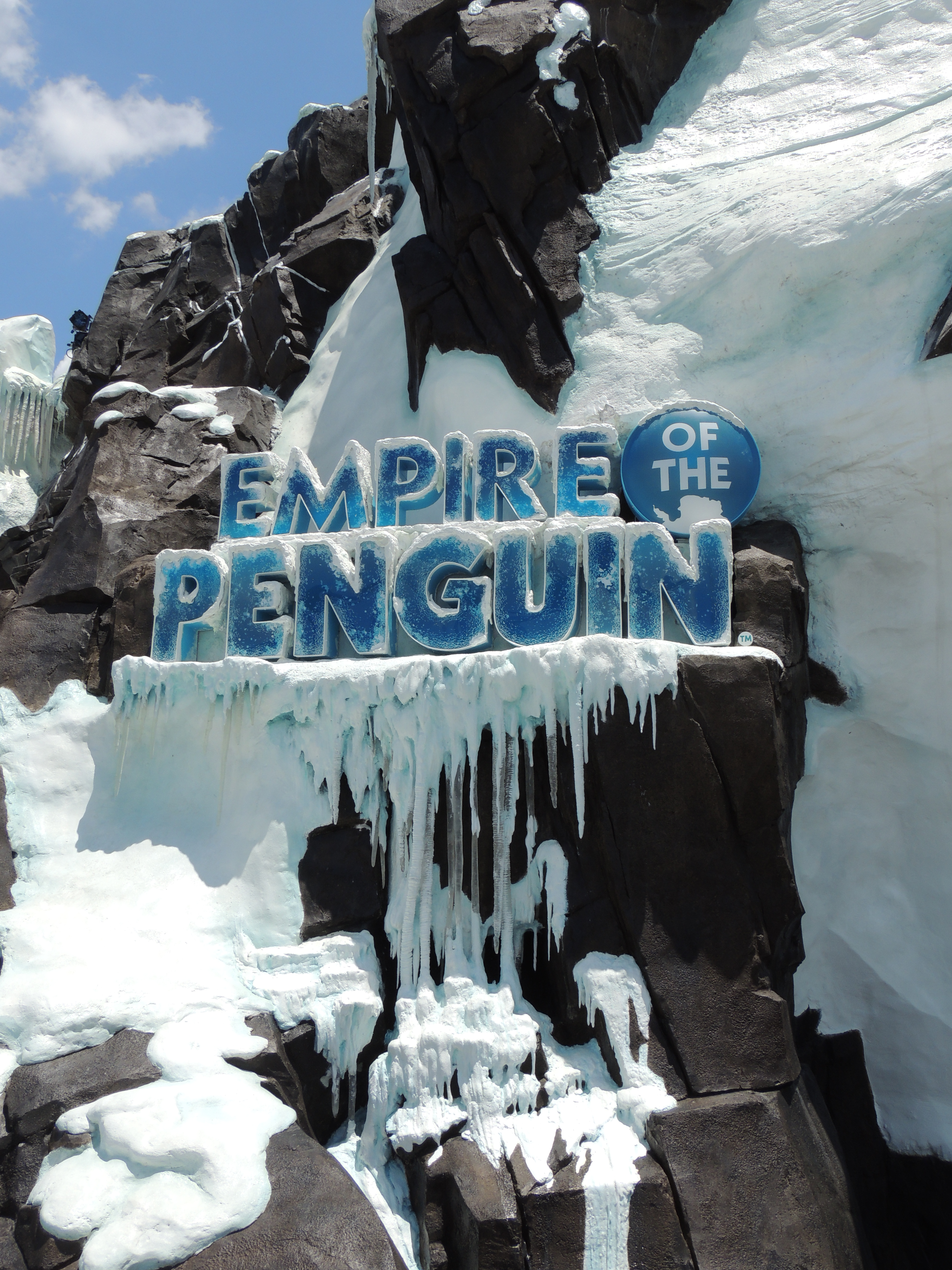 SeaWorld Orlando Anarctica: Empire of the Penguin